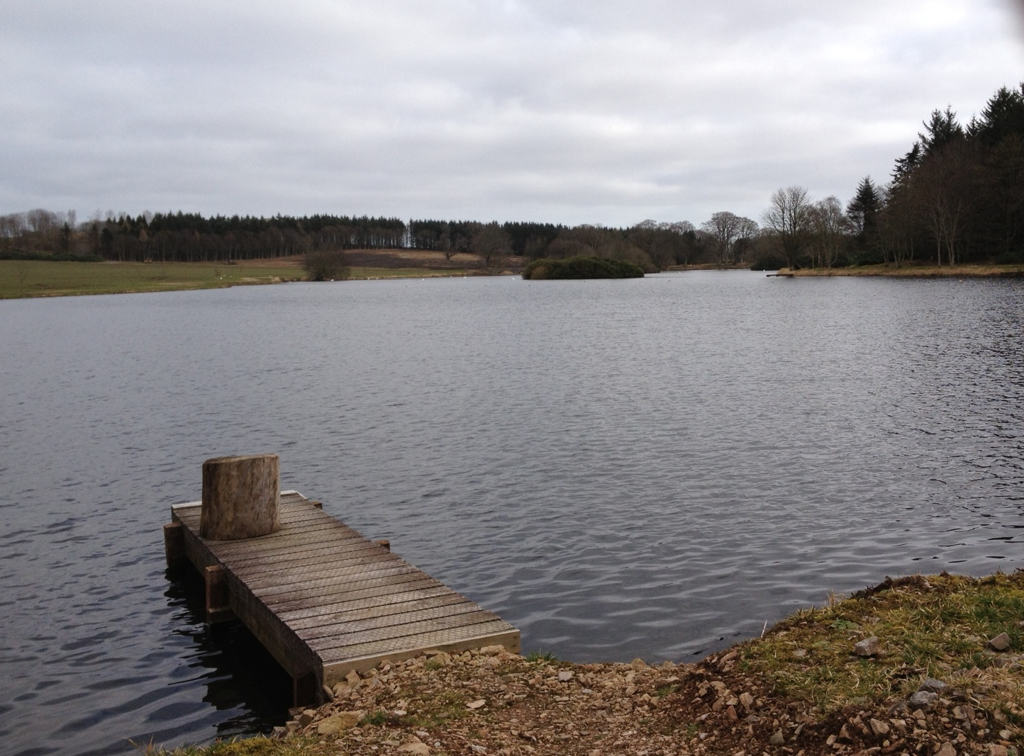 Pitfour Lake, Aberdeenshire